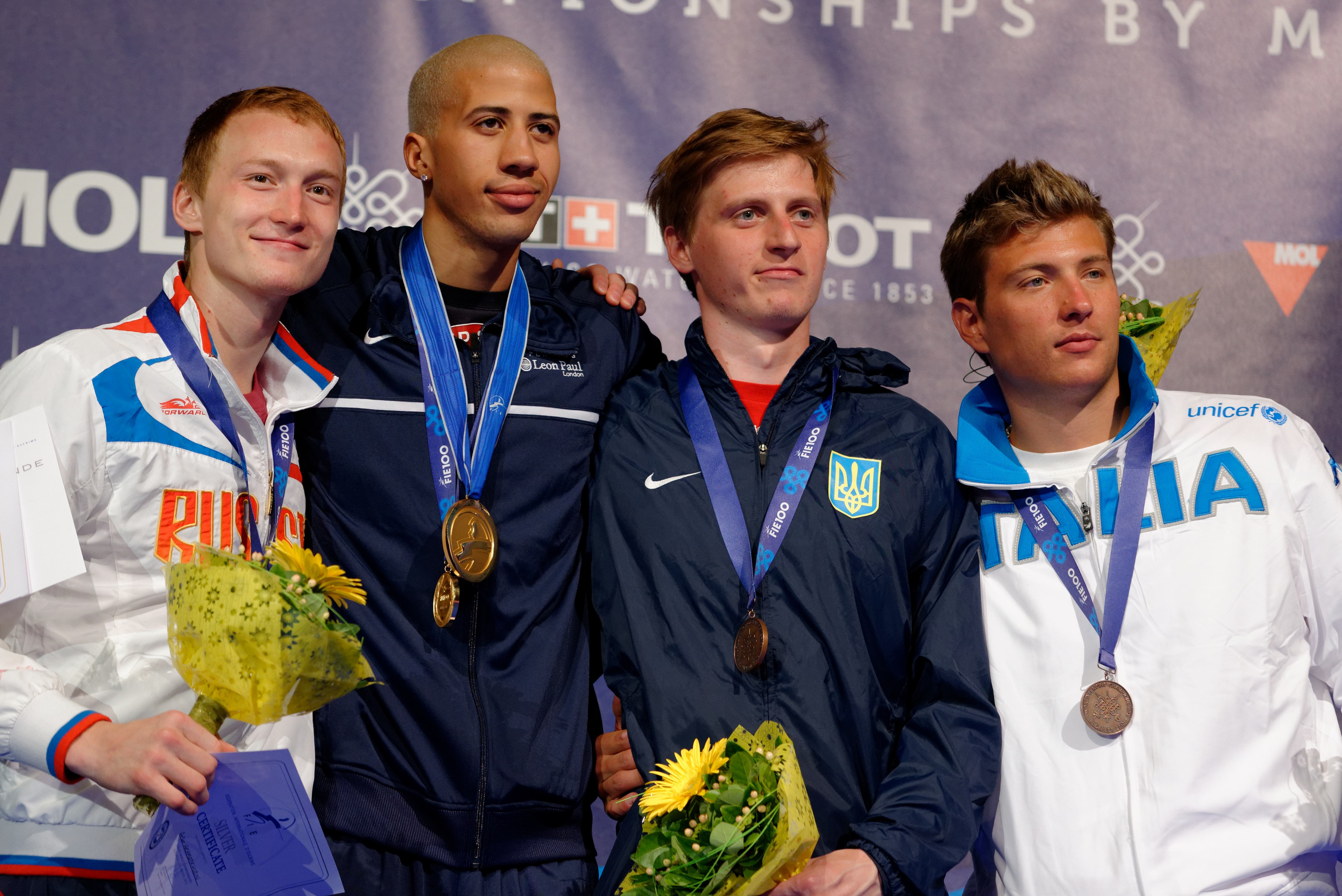 From left to right, Russia's Artur Akhmatkhuzin, the United States' Miles Chamley-Watson, Ukraine's Rostyslav Hertsyk, and Italy's Valerio Aspromonte on the podium of the men's foil in the 2013 World Fencing Championships 2013 at Syma Hall in Budapest on 9 August 2013.